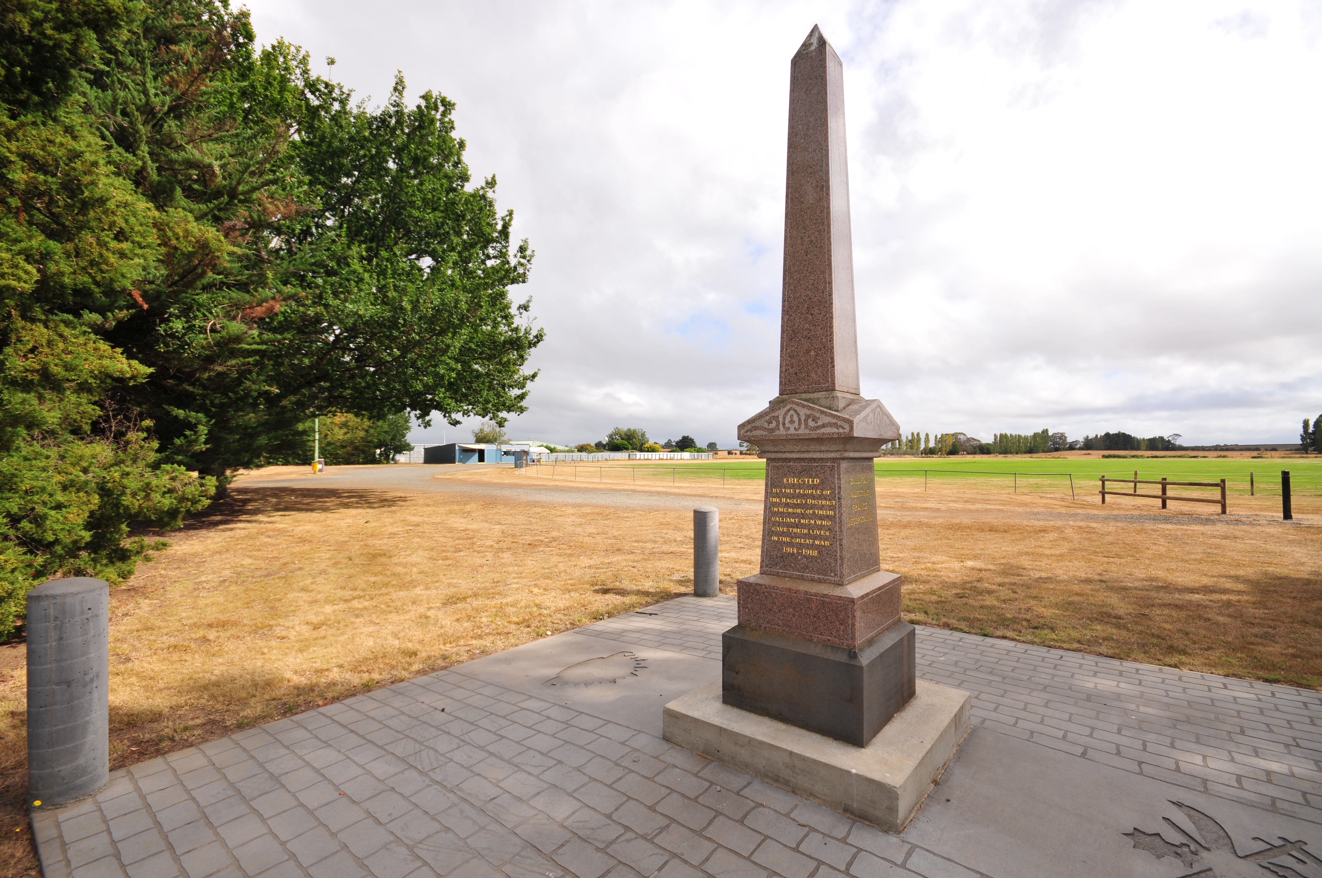 war memorial and recreation park in Hagley, Tasmania, Australia